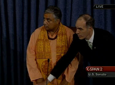 The Presiding Officer of the Senate speaks into the microphone, directing that "The Sergeant-at-Arms will restore order in the Senate," as hecklers in the balcony interrupt Hindu Guest Chaplain Rajan Zed as he delivers the first prayer by a Hindu on the Senate Floor. The protest was pre-planned, and the protestors were banned from the Capitol grounds for 12 months.